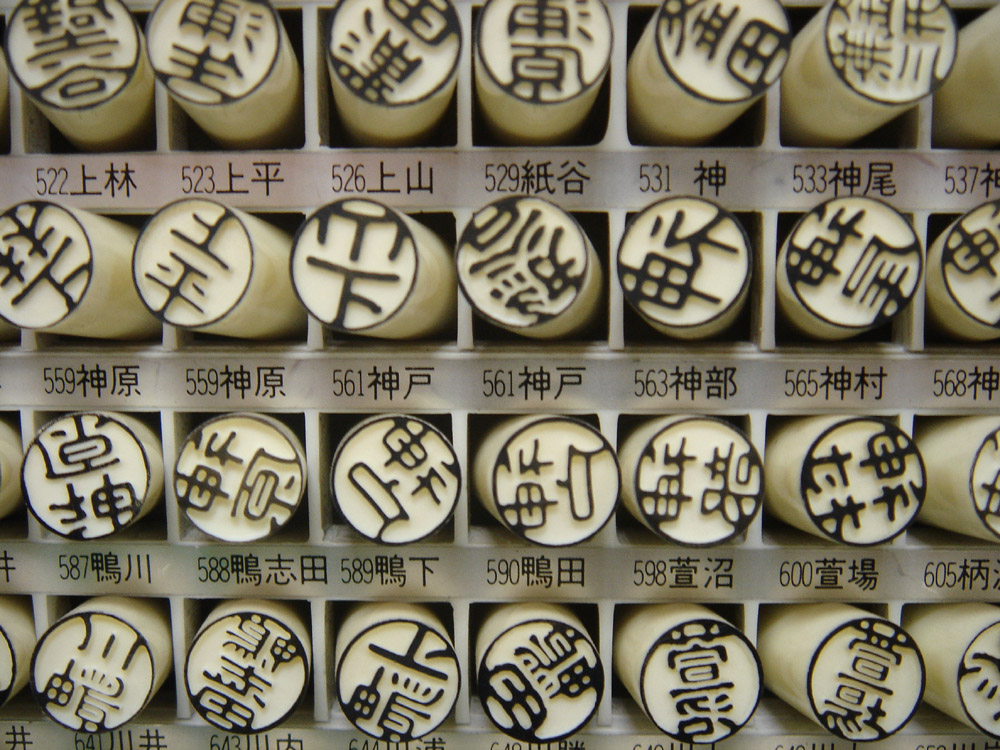 Japanese seals